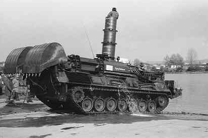 German Army Armored engineering vehicle (EWK prototype)